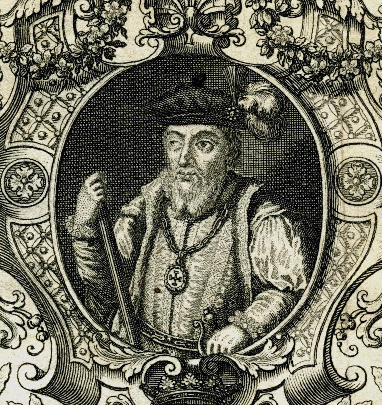 filho de Jaime I